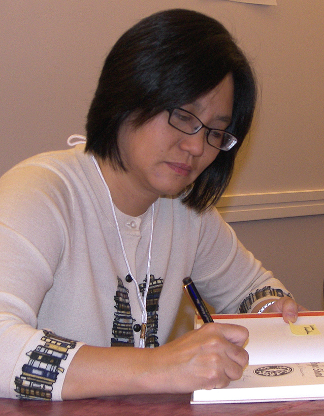 Linda Sue Park at the 2007 Texas Book Festival, Austin, Texas, United States.